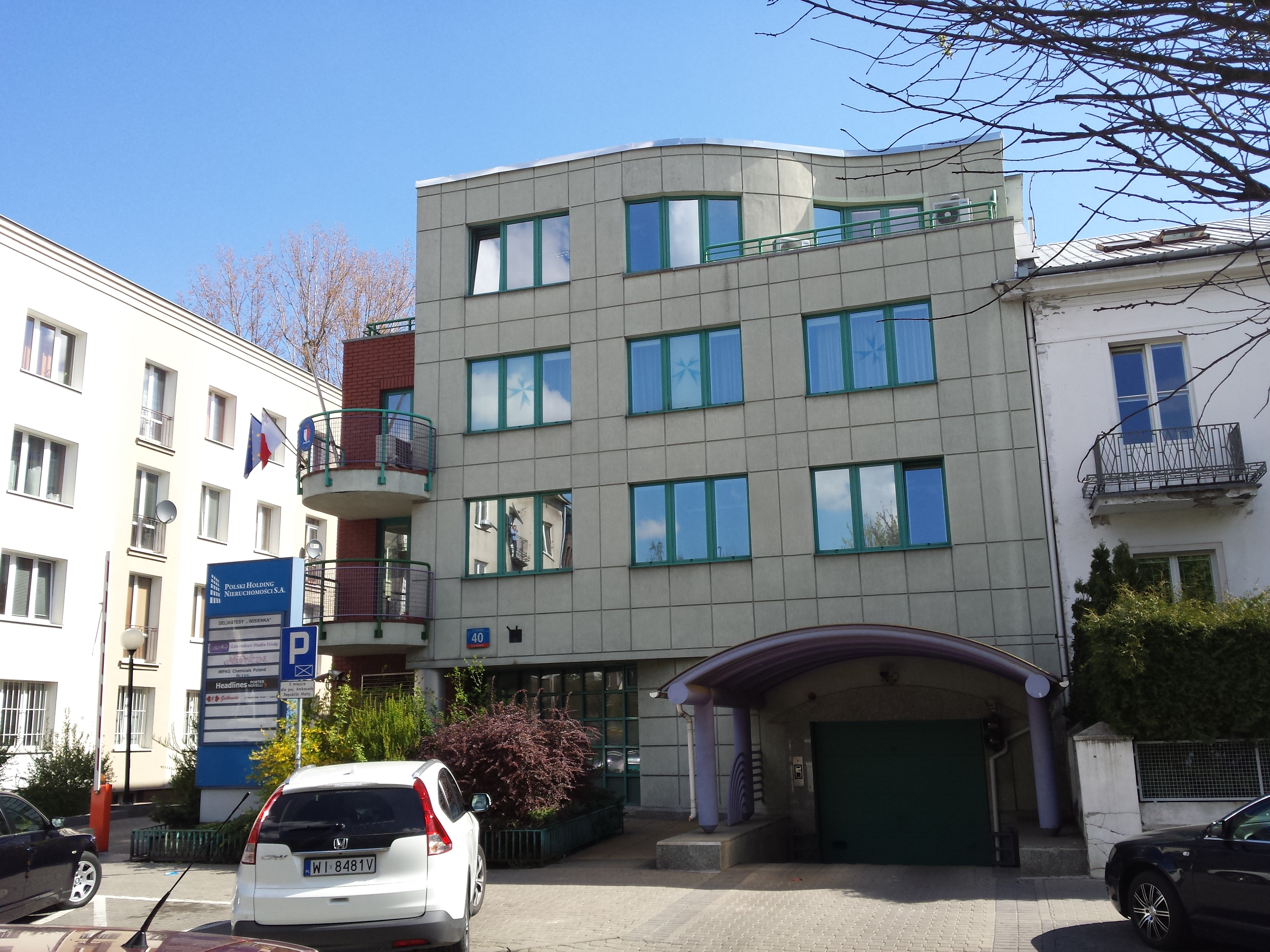 Embassy of Malta in Warsaw on Wiśniowa Street